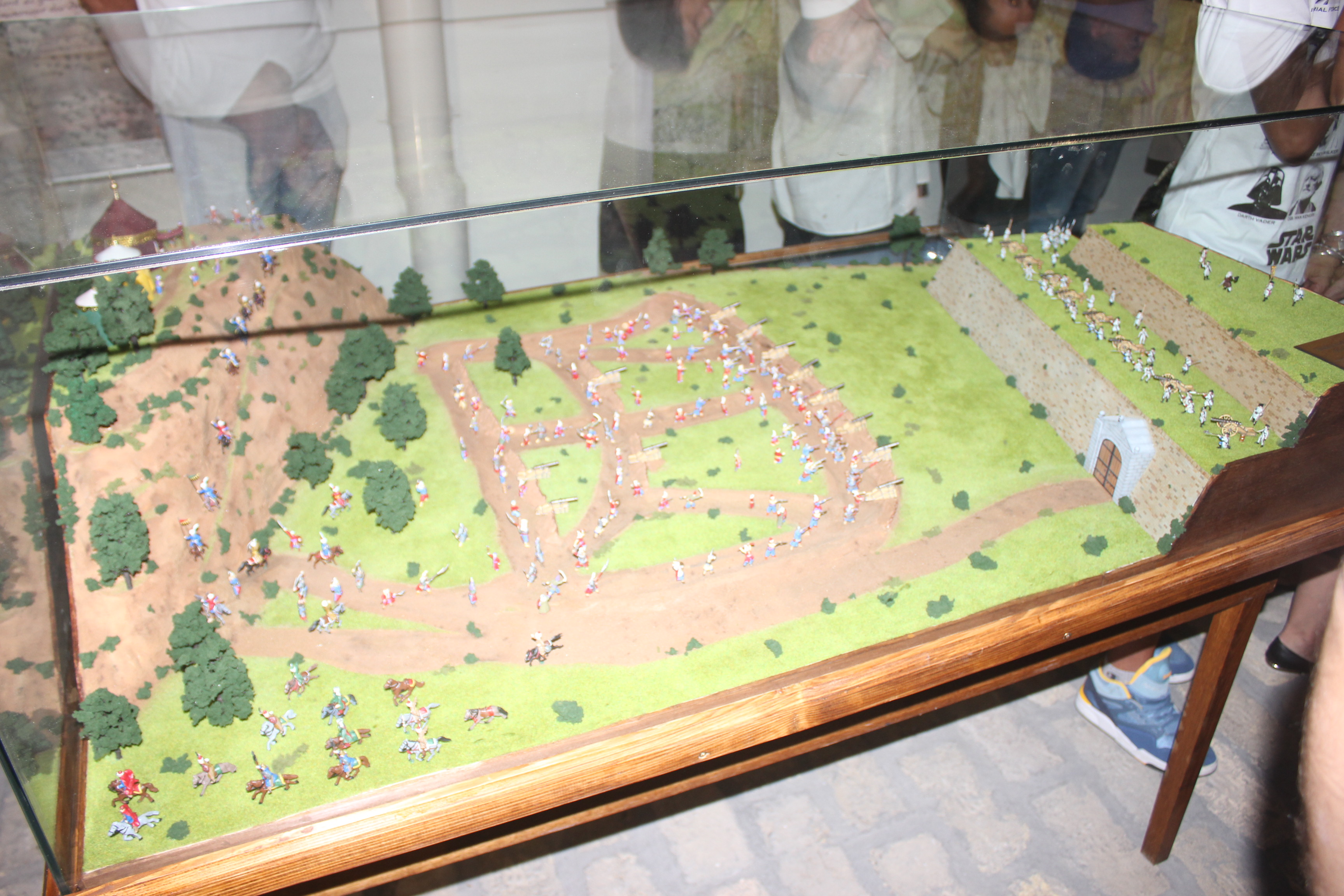 Diorama made for 300 years of battle of Petrovaradin